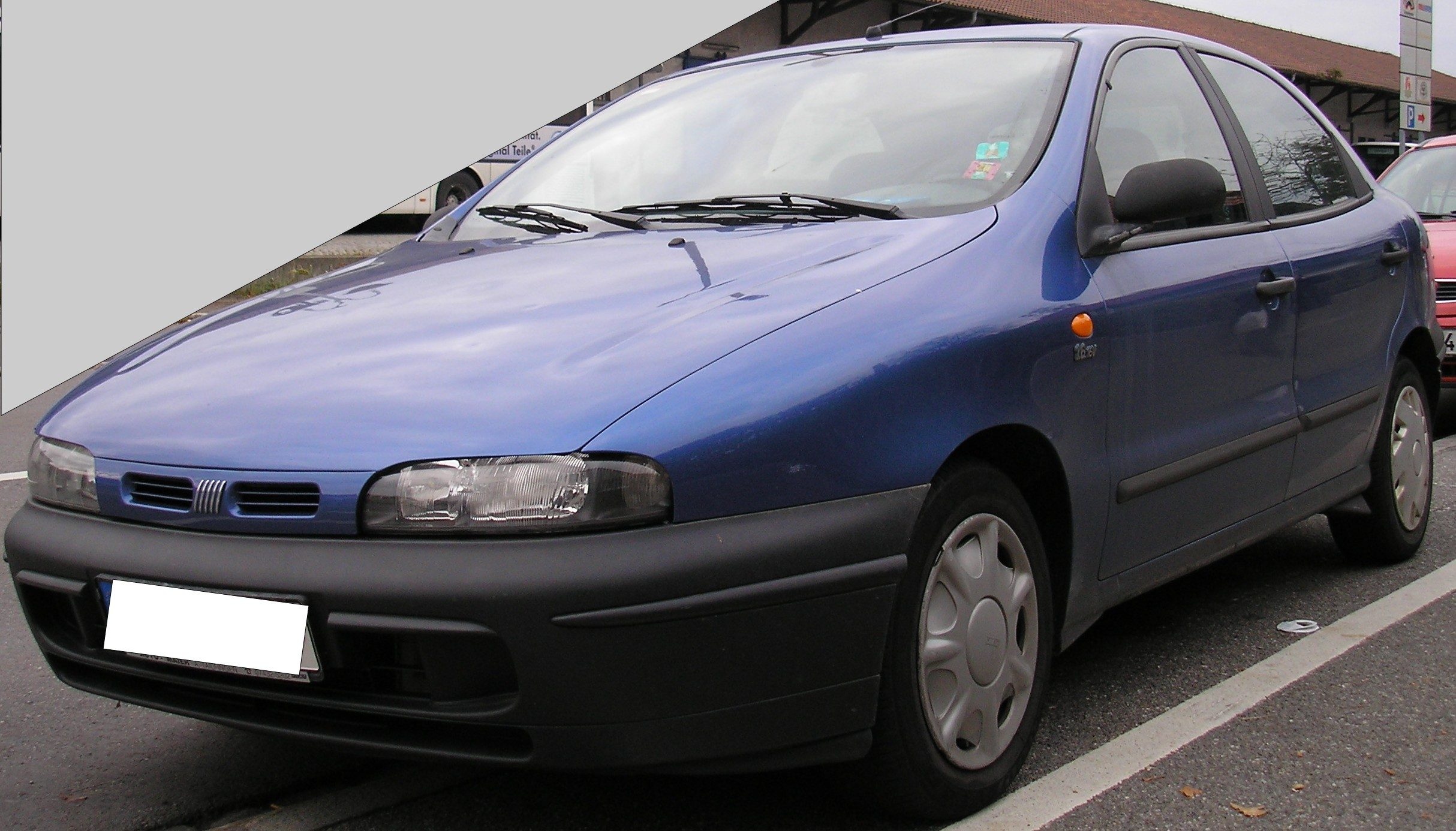 Fiat Brava 5door hatchback